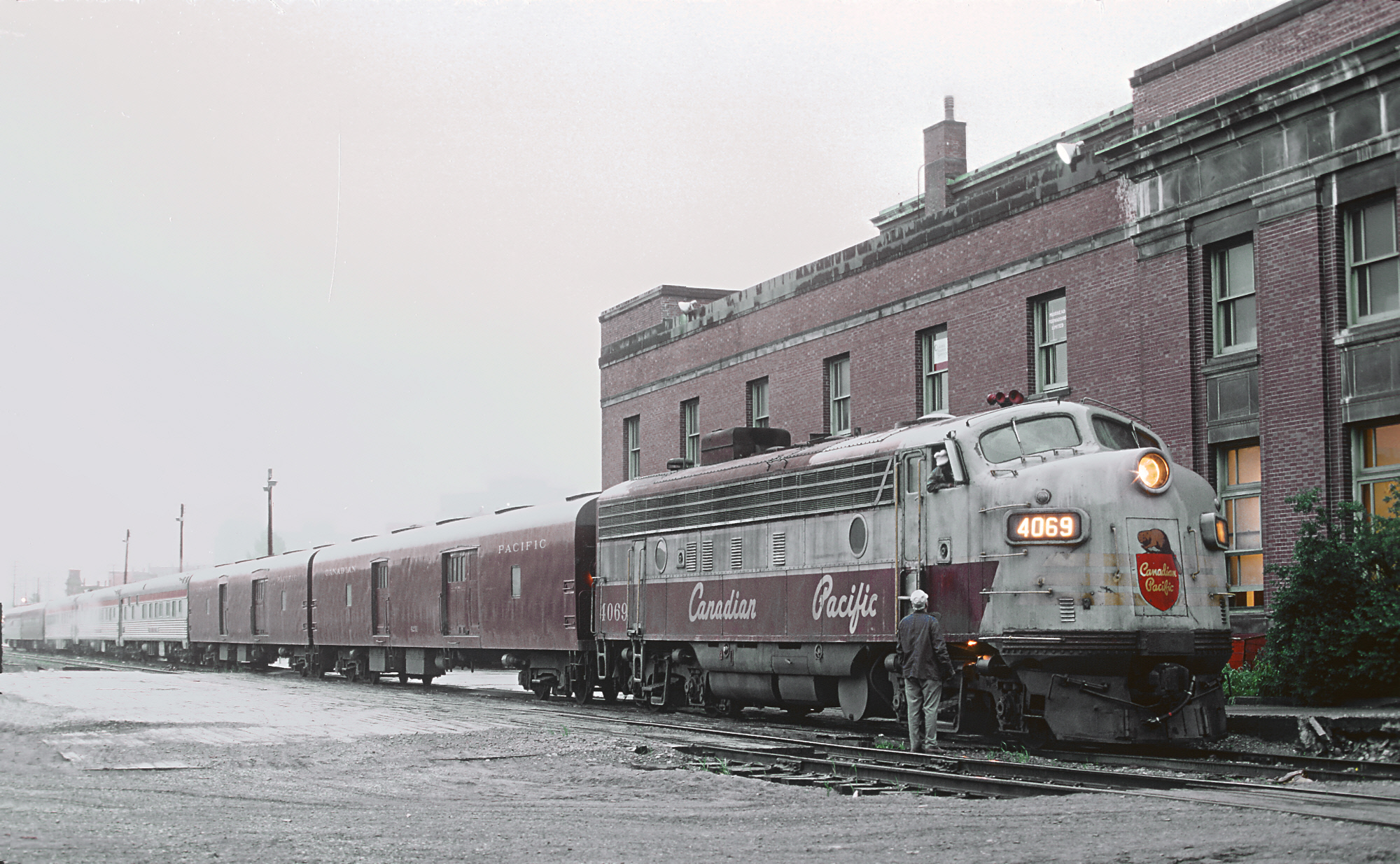 CP FP7A 4069 with Train 41, The Atlantic Limited, St. John, N.B. on July 4, 1970. A Roger Puta Photograph